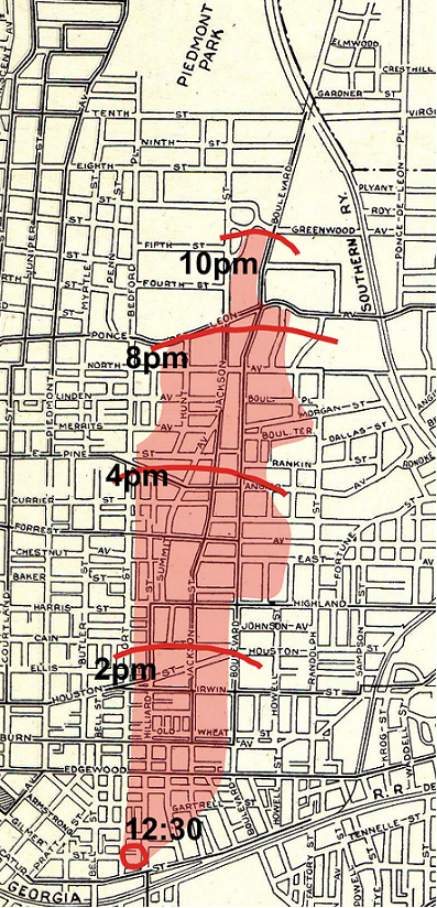 Map showing extent of the Great Atlanta fire of 1917. Lines indicate how far the fire had reached by various times of day. Produced with Inkscape on a map I scanned from a 1911 atlas (thus drawn upon a map in the public domain).